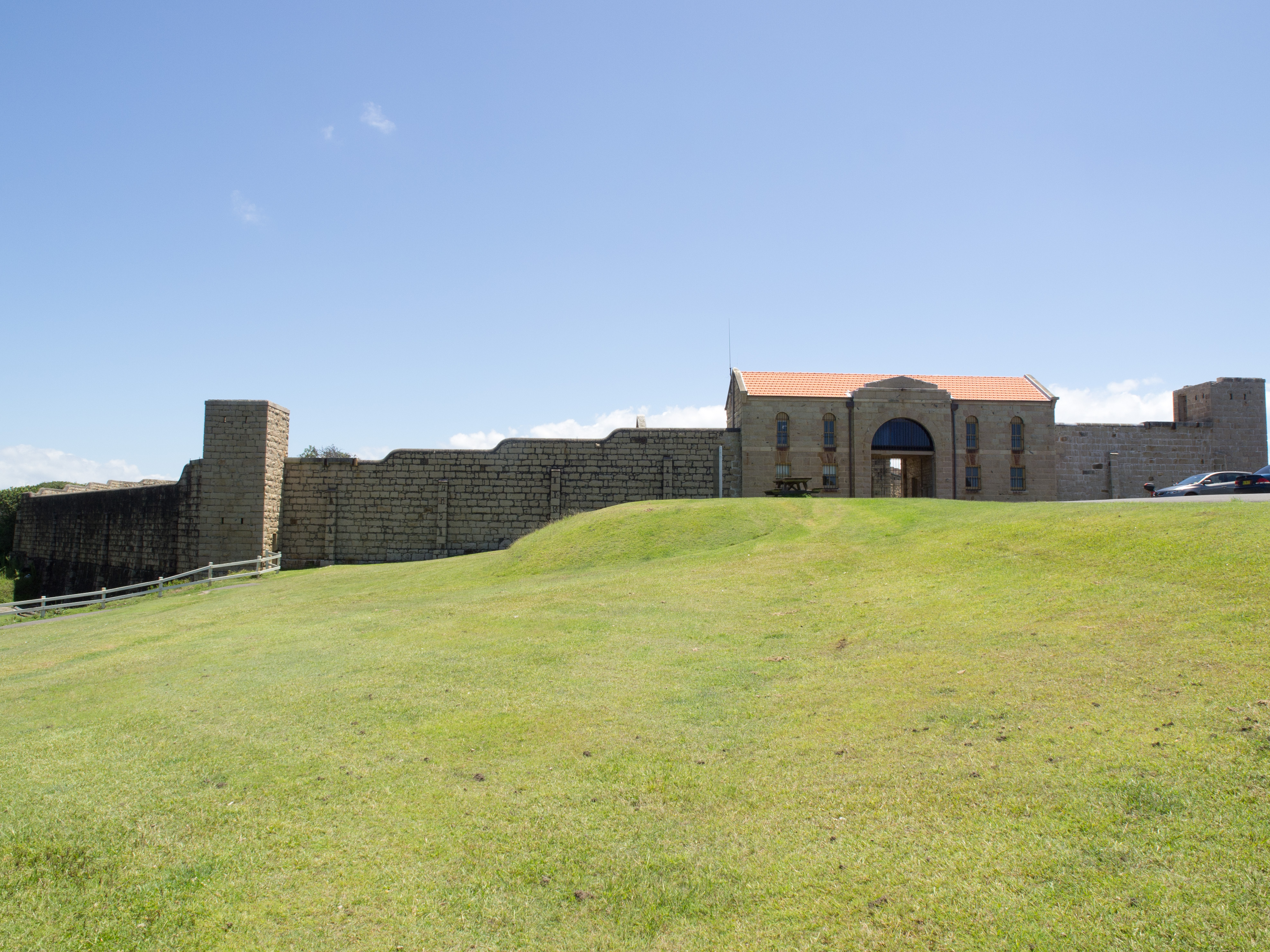 The front walls of Trial Bay Gaol